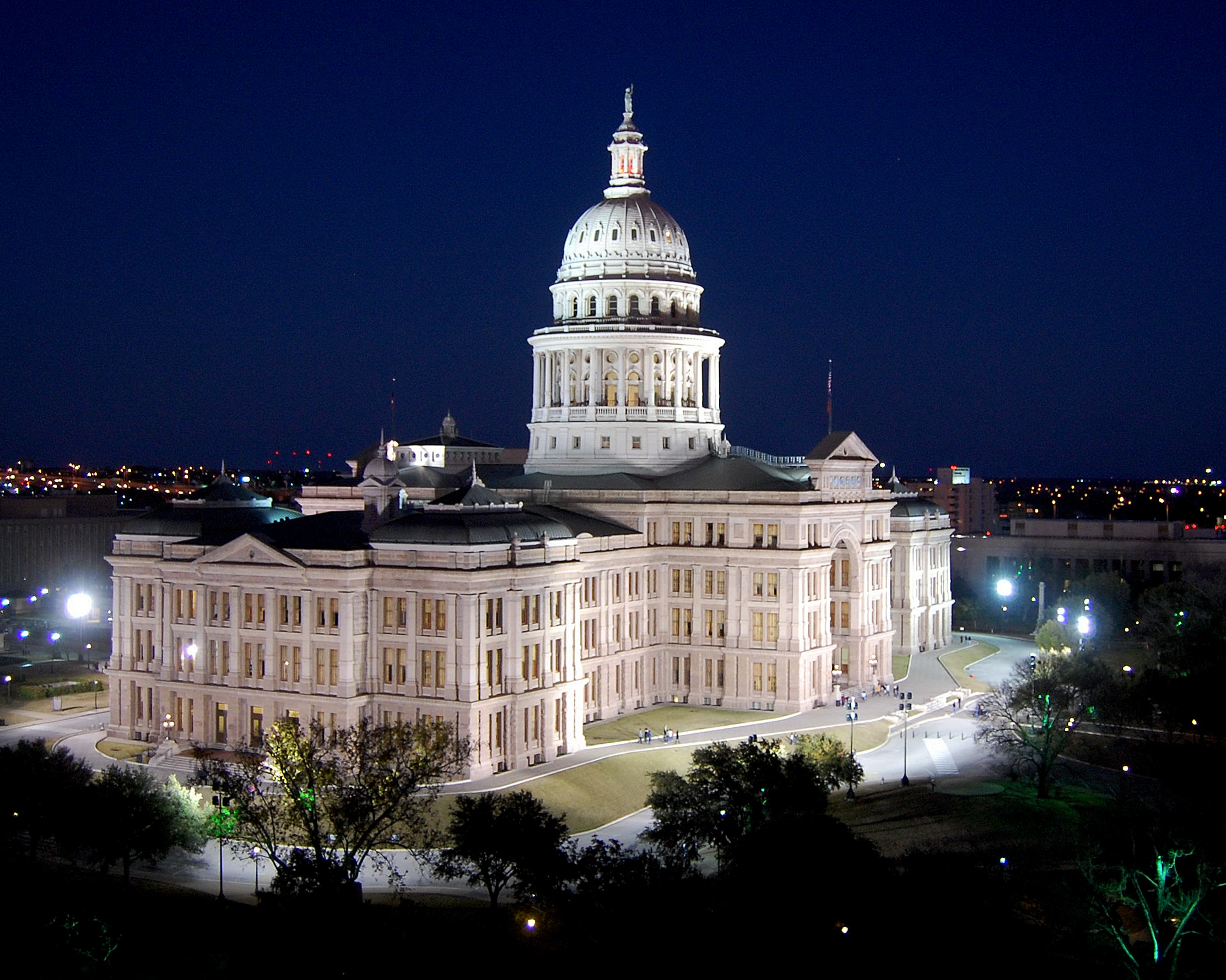 Texas State Capitol